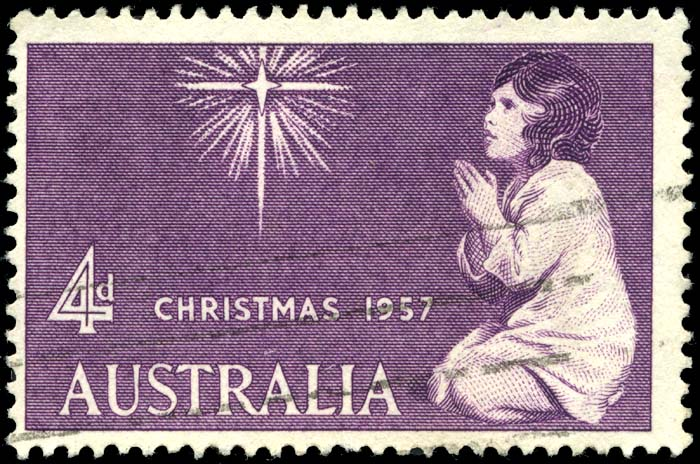 Australia 4p Christmas stamp of 1957, scanned by User:Stan Shebs